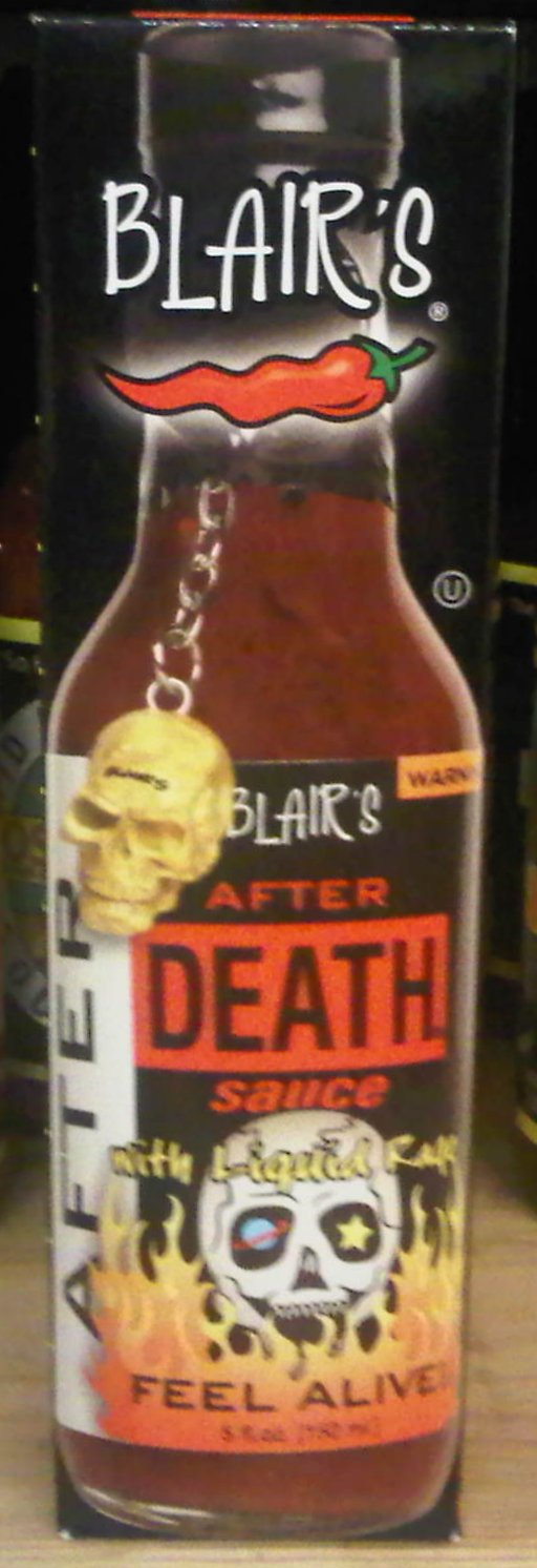 Photo of a bottle of Blair's After Death Souce on a store shelf.